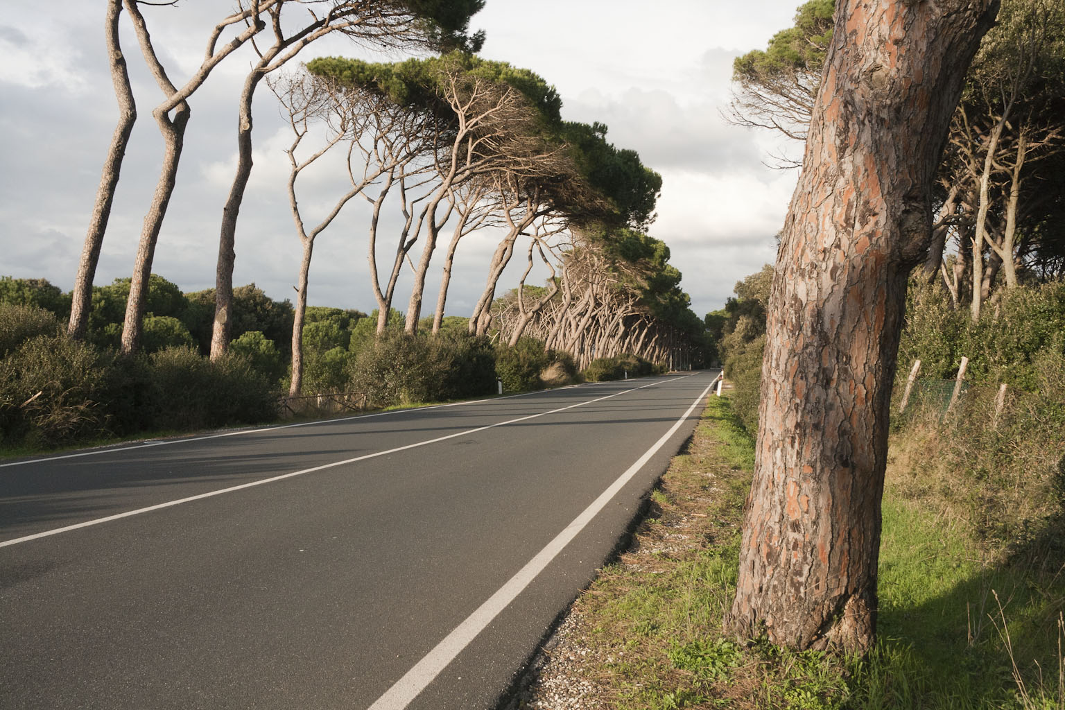 Italy, provincial road 23 "della principessa" in Tuscany, Leghorn province.